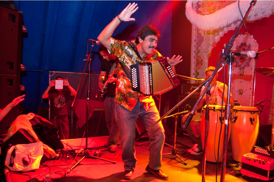 Celso Piña @ Salón de Baile. Fusion Festival 2012 Germany.